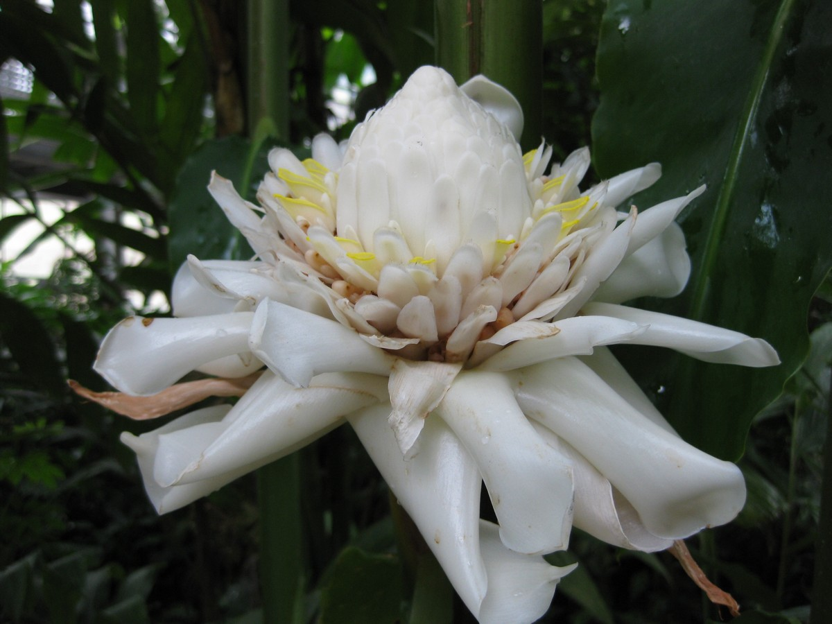 Photographed at the Queen Sirikit Botanic Garden (Chiang Mai Province, Thailand) in March